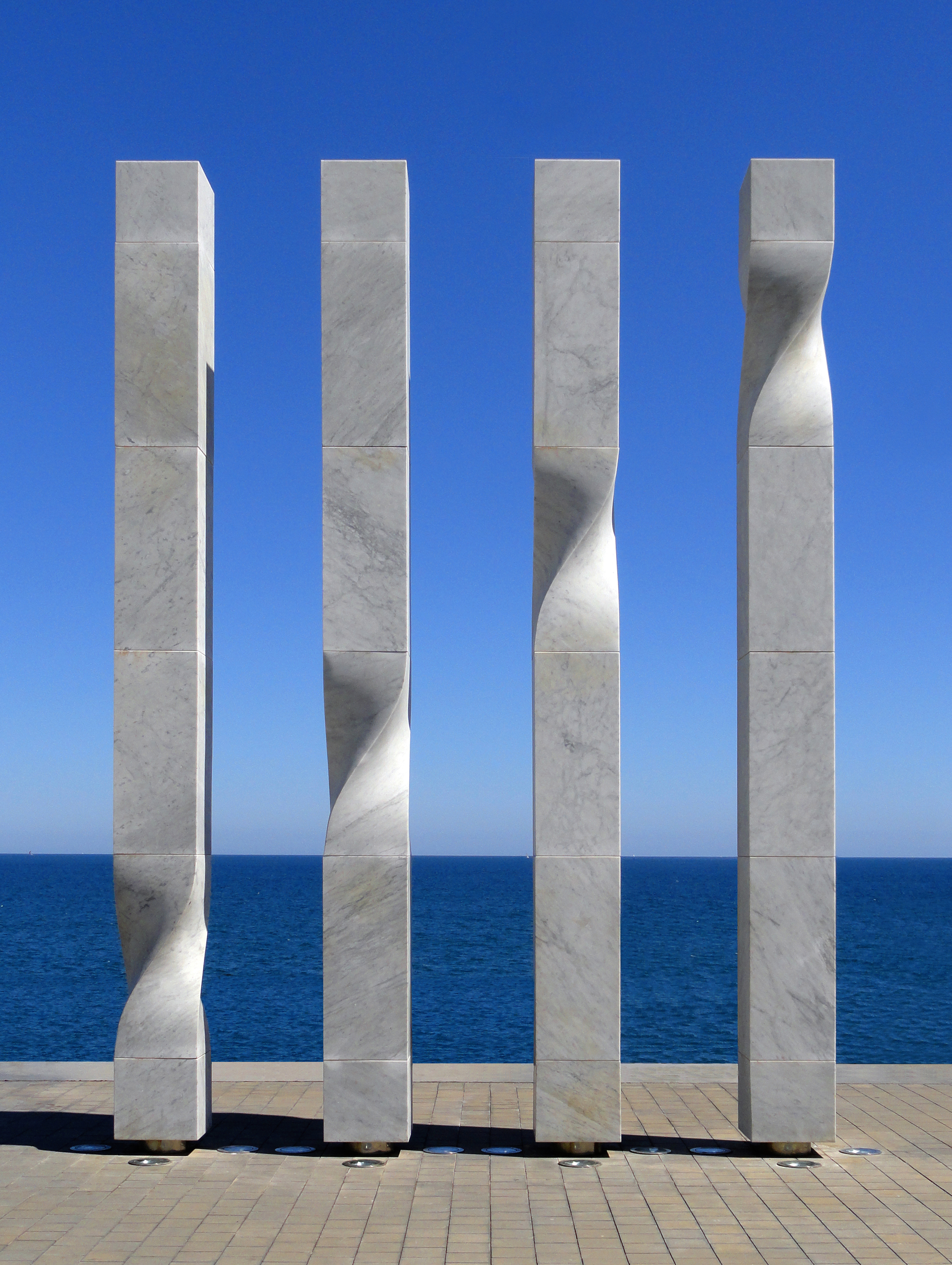 Ricardo Bofill (Ricard Bofill Leví), Les quatre barres de la senyera catalana, circa 2010, (08019/1988-1), Hotel W Barcelona, Plaça de la Rosa del Vents 1, Barcelona. This is a marble representation of the Senyera ("flag" in Catalan), a vexillological symbol based on the coat of arms of the Crown of Aragon, which consists of four red stripes on a golden background. This coat of arms, often called bars of Aragon, or simply "the 4 bars" (les quatre barres), historically represented the king of the Crown of Aragon.